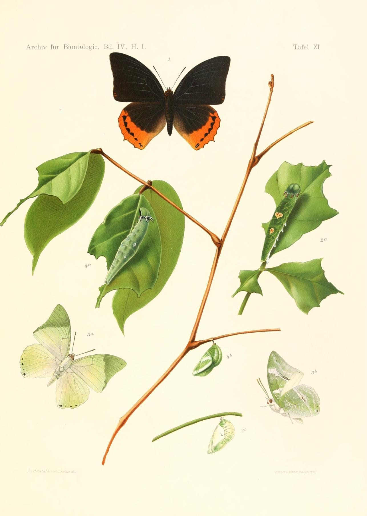 Arnold Schultze, 1917 Die charaxiden und apaturiden der kolonie Kamerun : eine zoogeographische und biologische studie / von Arnold Schultze. Mit tafel IX-XIV, 1 karte und 2 textfiguren.Berlin,Gesellschaft Naturforschender Freunde zu Berlin,1916 Tafel 10 Plate XI 1 Charaxes protoclea ab. ablutus Schultze, 1914 male Typus 2a Full grown larva of Charaxes numenes (Hewitson, 1859) 2b Pupa of Charaxes numenes (Hewitson, 1859)- the foodplant is Allophilus (Schmidelia) africanus 3a Charaxes subornatus Schultze, 1916 male 3b Charaxes subornatus perching 4a Full grown larva of Charaxes laodice synonym for Charaxes lycurgus (Fabricius, 1793)[1] 4b Pupa of Charaxes laodice (now Charaxes lycurgus) - the foodplant is an unknown species ranked in Leguminosae text